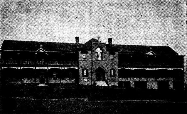 Photograph of St. John's Orphanage in 1919, appearing in the news article "An appeal for one shilling". As this is from Trove, this link is relevant for postage: [1]